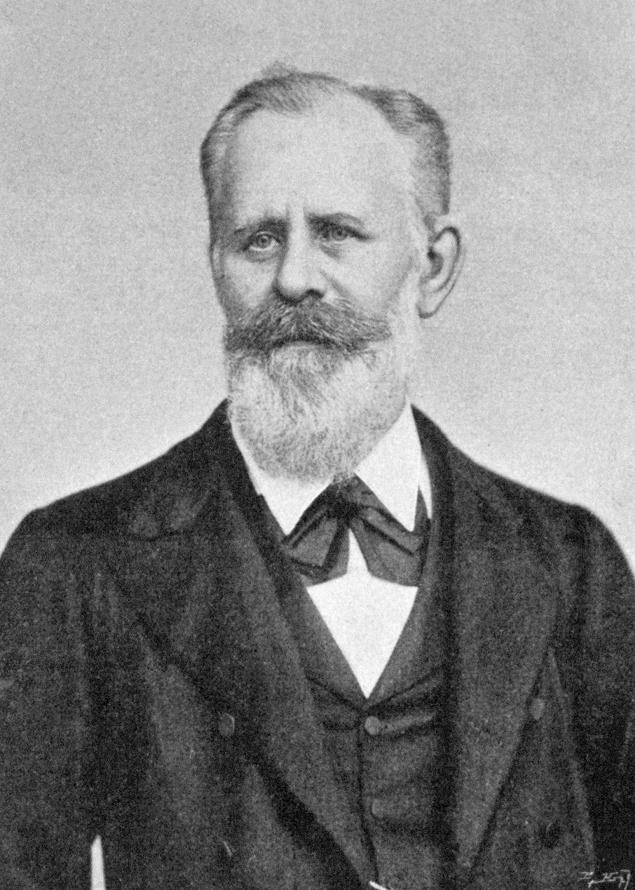 Portrait of Hermann Nothnagel (1841-1905), Austrian professor of medicine and member of parliament.